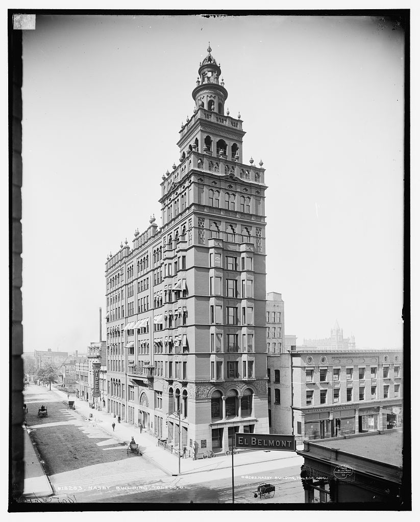 Nasby Building, Toledo, Ohio. circa 1905